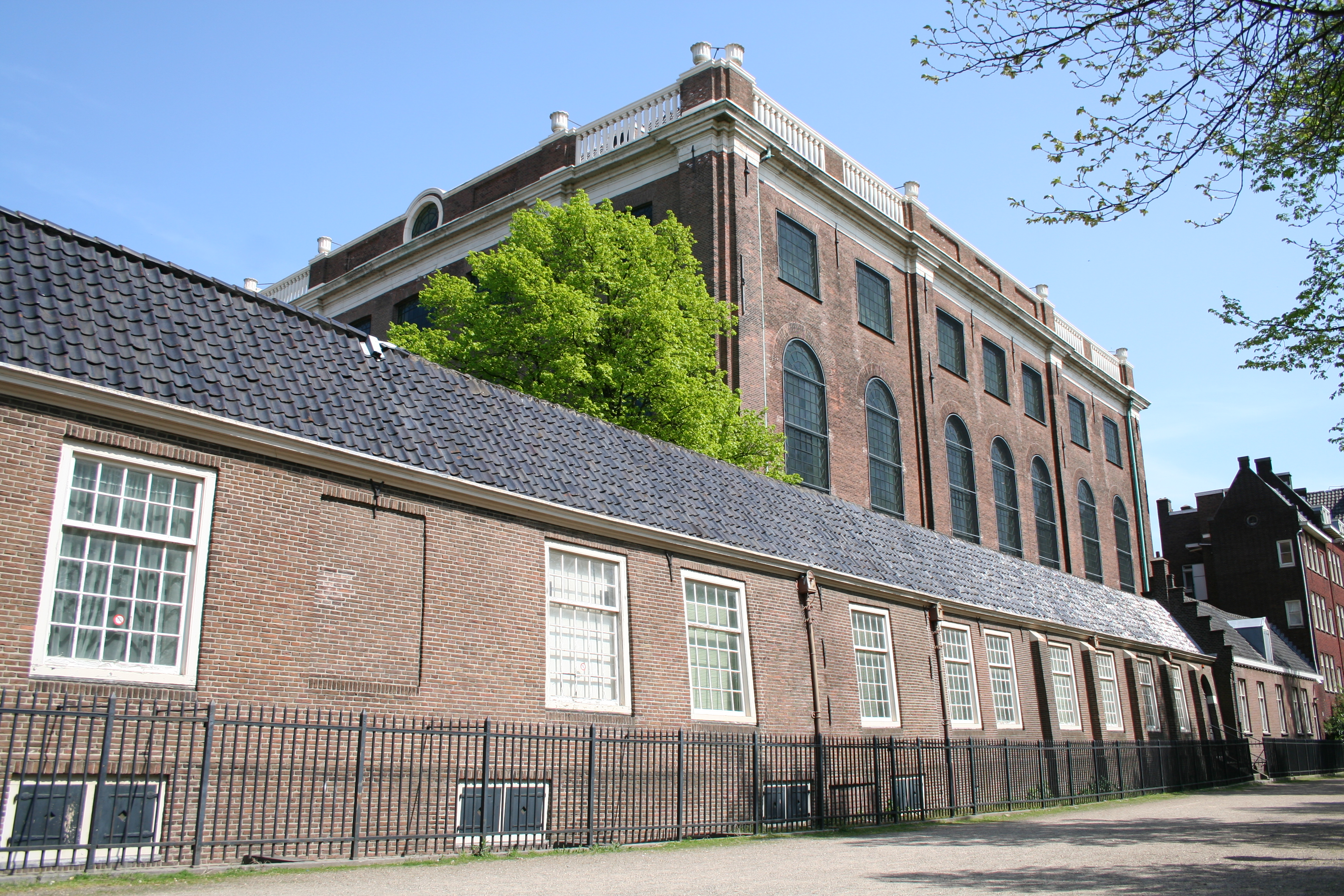 A photograph taken of the Esnoga synagogue in Amsterdam.